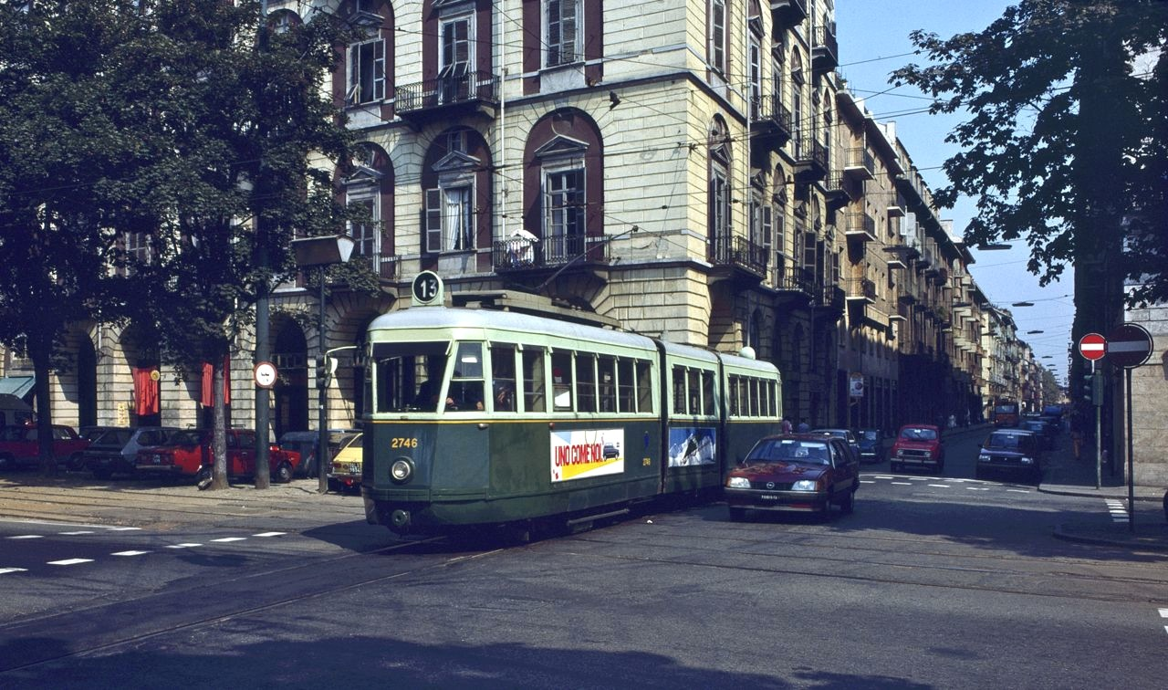 Tram 2746, of the Torino tram system, in 1983. It is pictured southbound on Via Vanchiglia, crossing Corso San Maurizio (and the tracks of route 16), on its way into service on route 13 from Tortona carhouse (depot). Car 2746 was built in 1958.